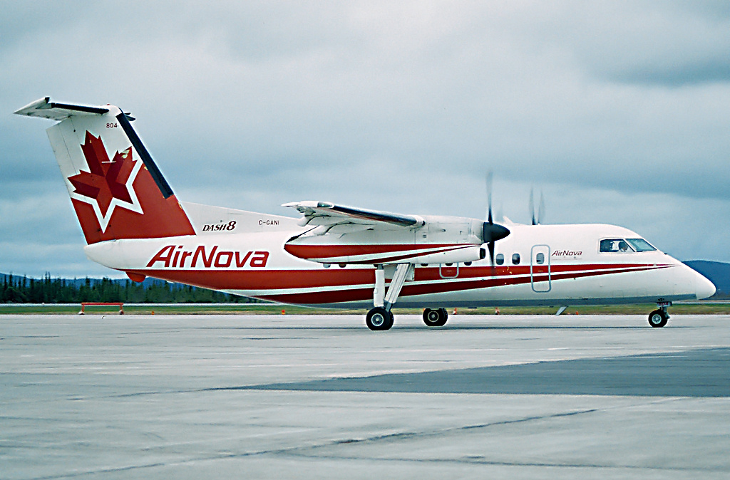 Air Nova De Havilland Canada Dash 8 at CFB Goose Bay (CYYR), Labrador, Canada